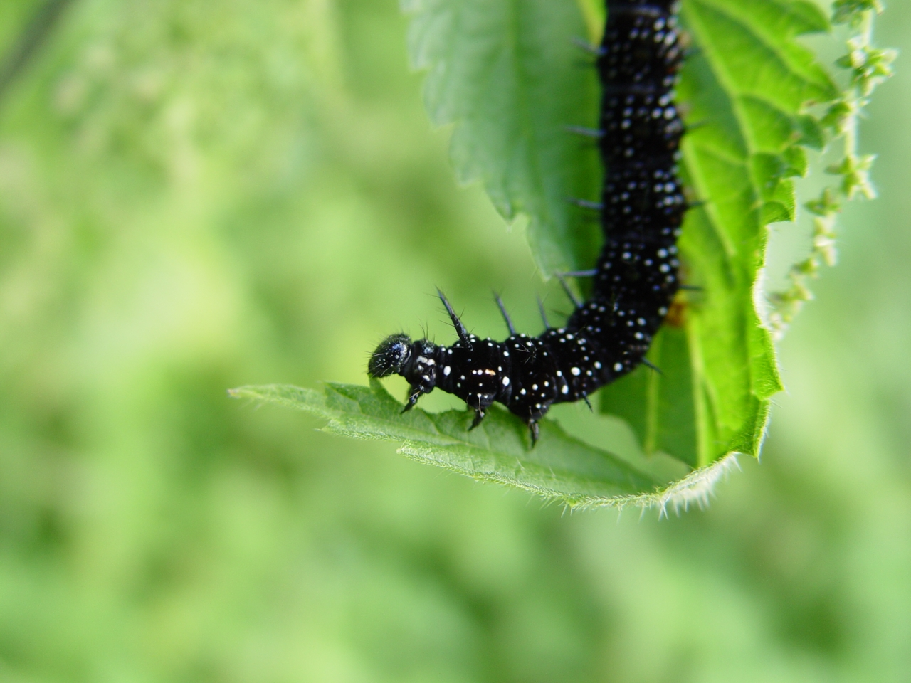 Peacock (Inachis io), caterpillar German description: Tagpfauenauge (Inachis io), Raupe